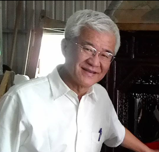 Hsin Chu Mayor James Tsai